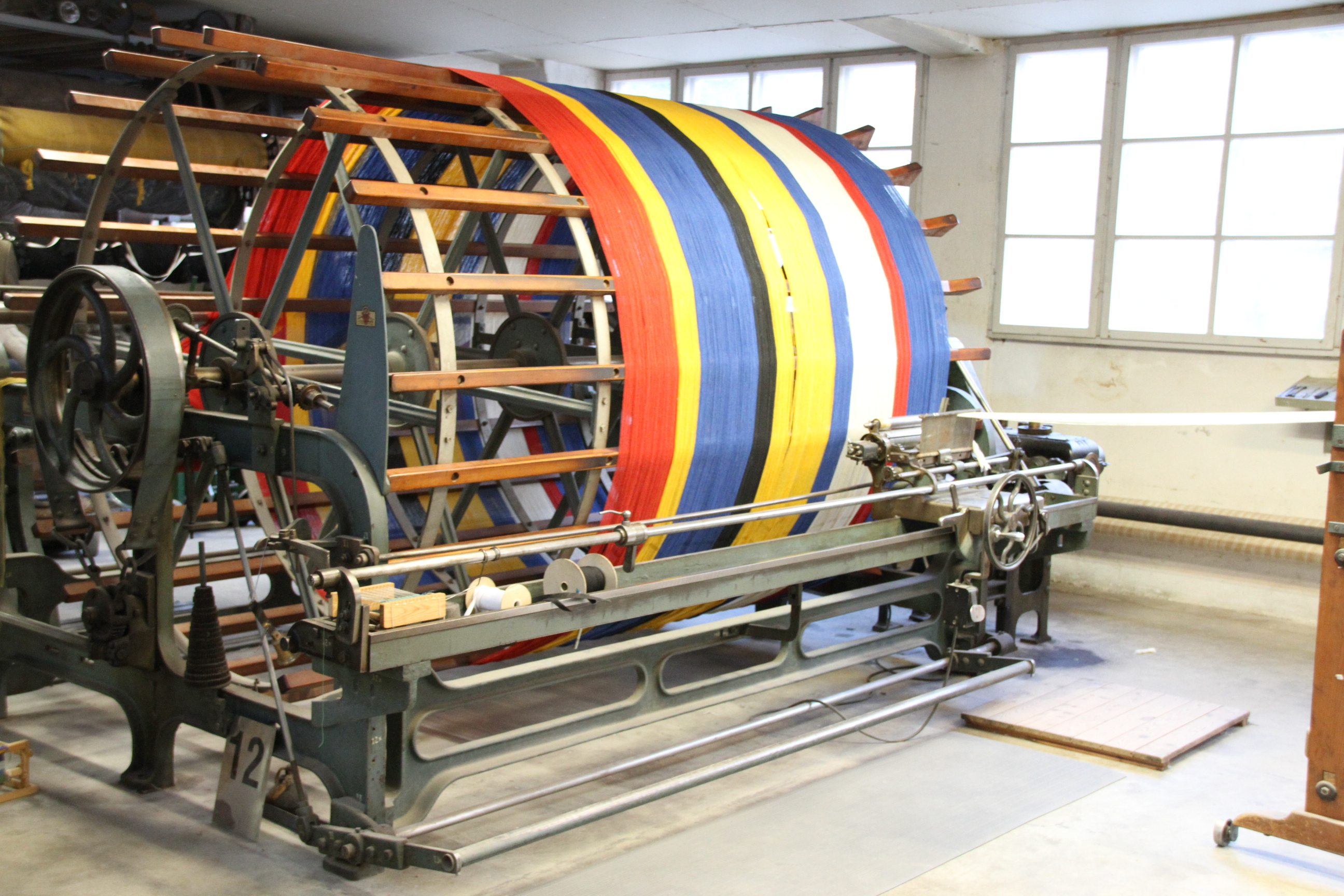 Image of a W.M.Whiteley & Sons warping machine (produced in Huddersfield, England), at the Sjøllingstad Wool Products Factory in Mandal, Vest-Agder county (Norway).